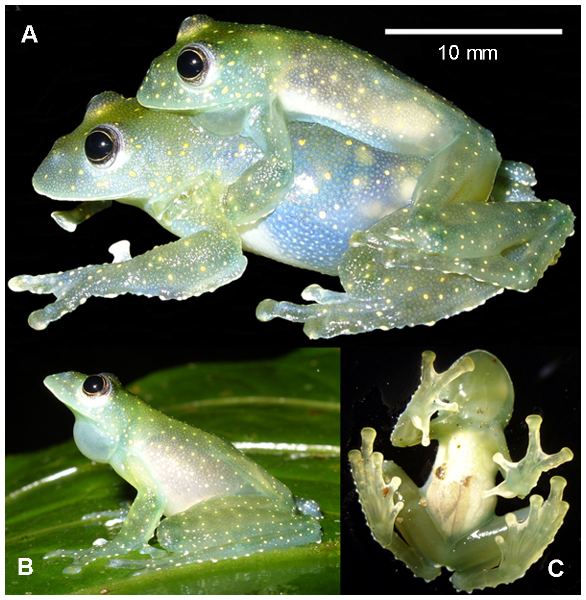 Cochranella mache. Amplectant pair captured on the April 22, 2009 Rompe-frente rivulet (A) and a calling male (SVL = 26.4 mm, not collected) showing its profile and ventral views, photographed on the April 20, 2009 Rompe-frente rivulet, Bilsa Biological Station, northwestern Ecuador (B, C).